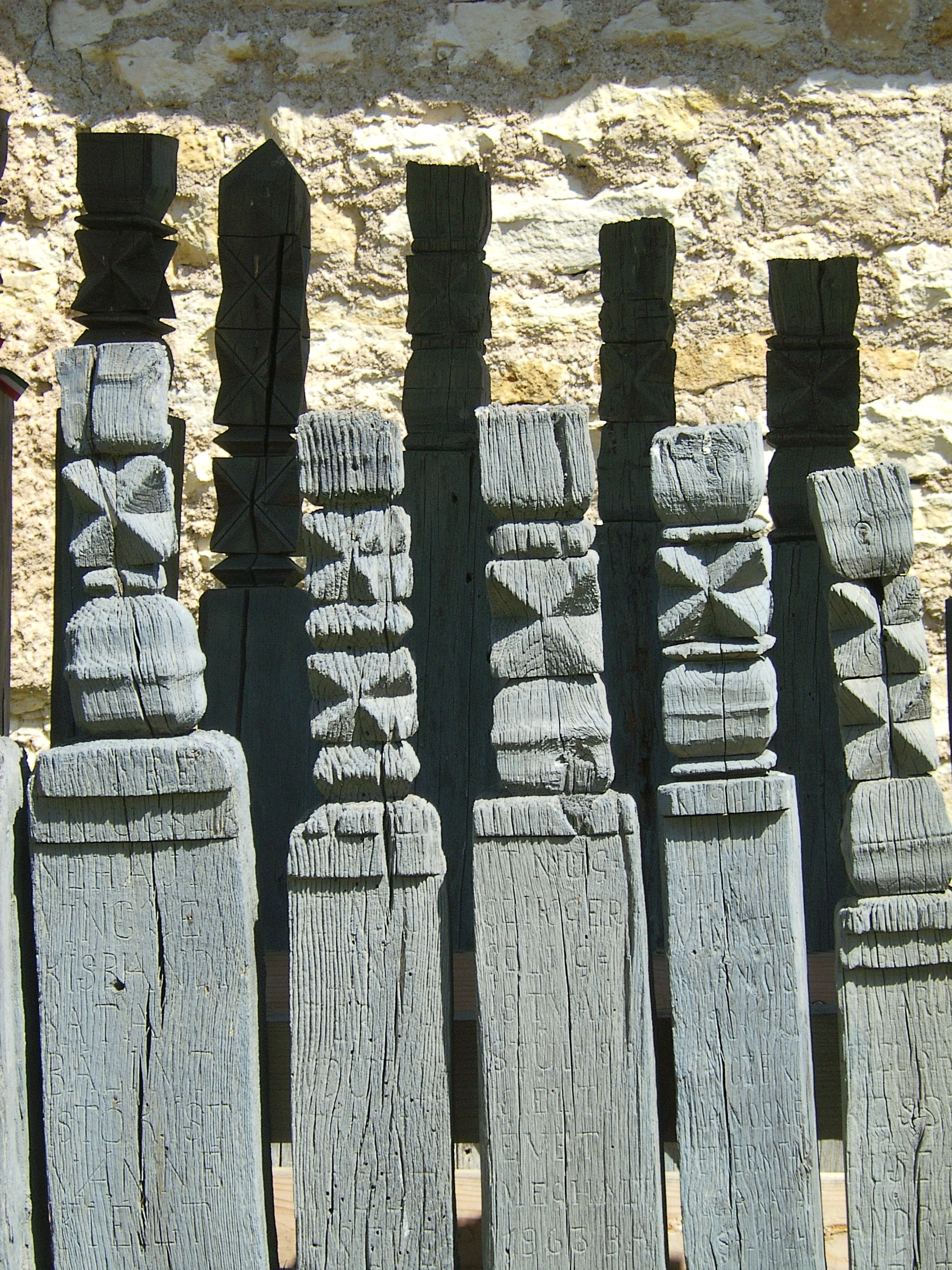 Old graves in Văleni, Transylvania